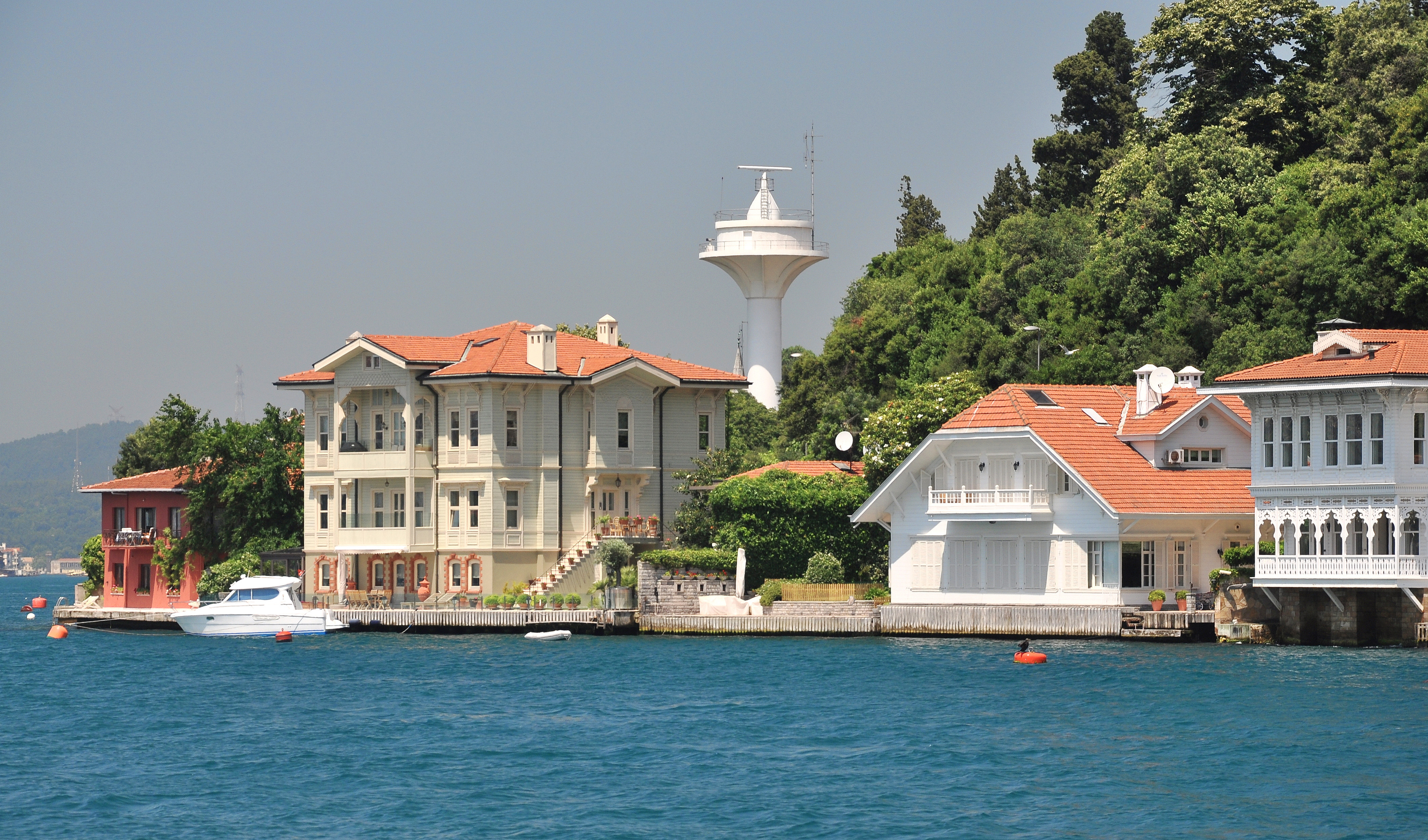 Yalı (manor houses) in Kanlıca on the Bosphorus in Turkey.